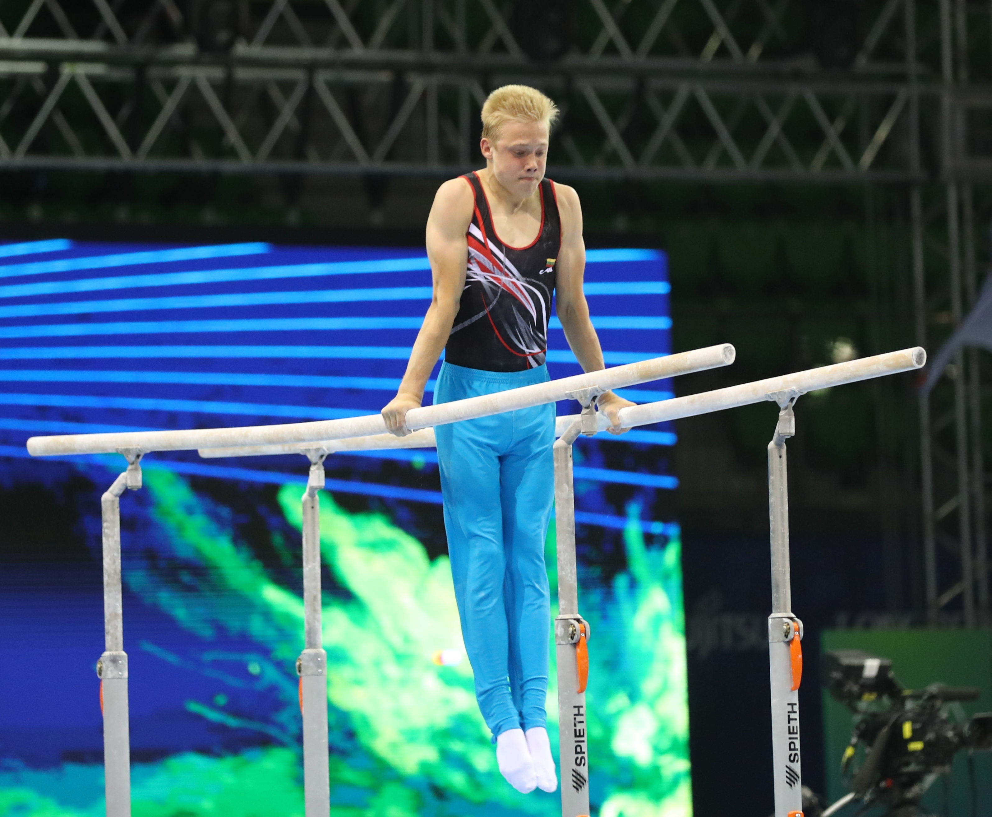 Parallel bars exercise of subdivision 1 during the boys' all-around competition at the 1st FIG Artistic Gymnastics Junior World Championships on 27 June 2019 in Győr, Hungary. Depicted: Gytis Chasazyrovas.